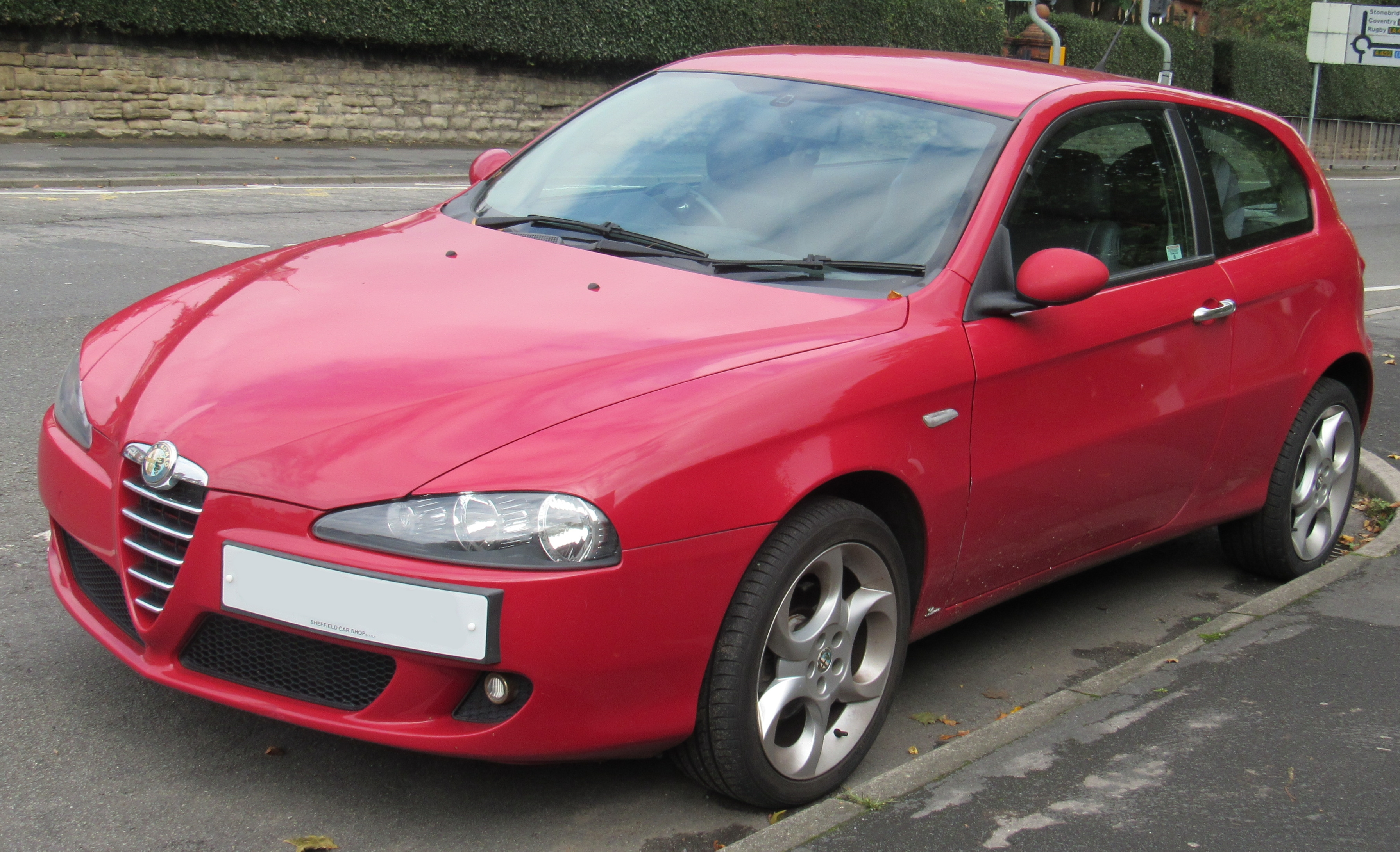 2006 Alfa Romeo 147 T Spark Lusso 2.0 Front Taken in Leamington Spa